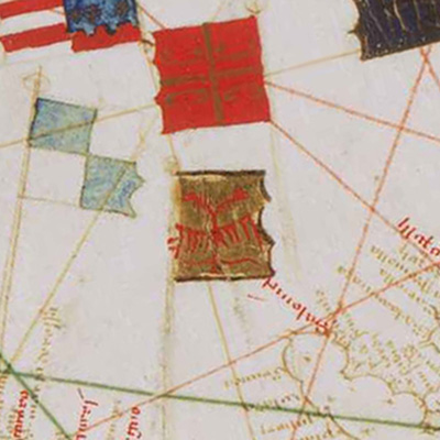 Flag and coat of arms of Nemanyid Serbia, from 1439, according to portolan of Gabriel de Vallseca